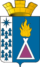 Coat of Arms of Urengoy (Yamalo-Nenetsky AO)